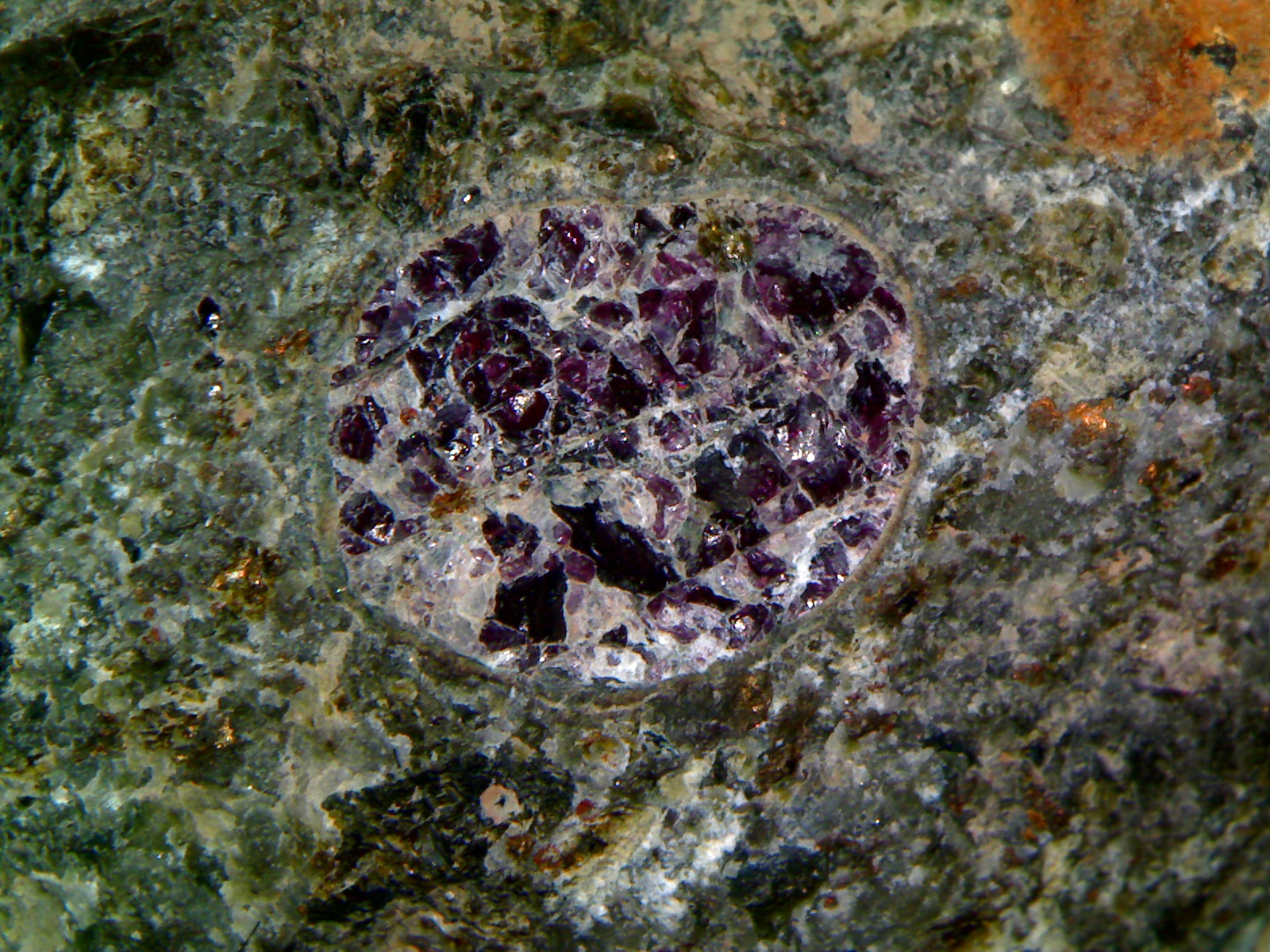 Pyrope. Kimberlite. Mir mine. Mirny. The Republic of Sakha (Yakutia). Far Eastern Federal District. Russia.